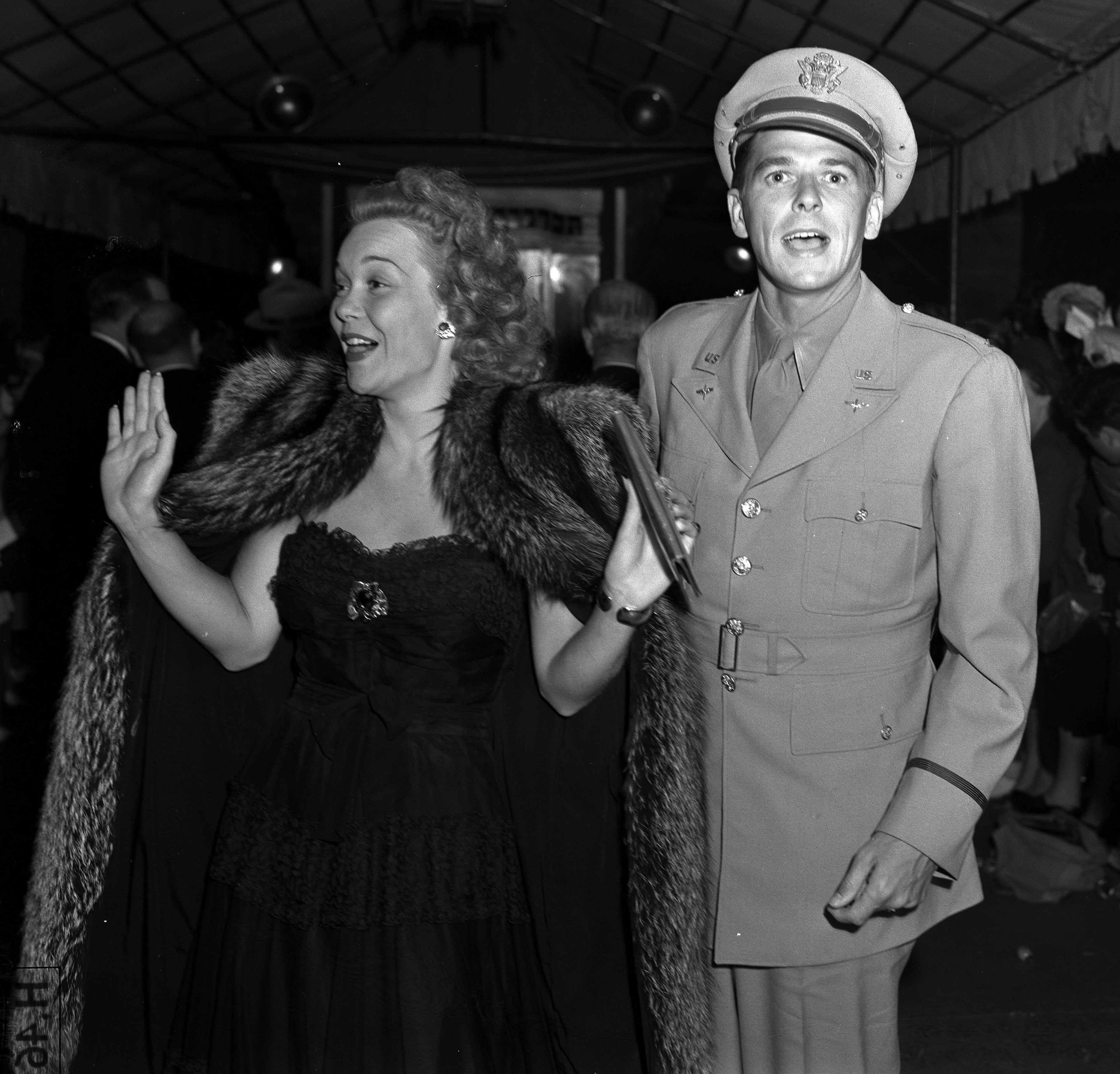 Title: Actors Jane Wyman and Ronald Reagan arriving at the premiere for the American anthology film Tales of Manhattan (1942) in Los Angeles, Calif., 1942. Publication: Los Angeles Times Publication date: August 5, 1942 Source: Los Angeles Times photographic archive, UCLA Library Note about non-renewal of serial copyrights: Note